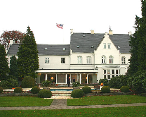 “Rydhave”, the residence of the United States' Ambassador to Denmark, stands out among the grand villas in the neighborhood of Skovshoved, a few miles north of Copenhagen along the scenic coastal road, Strandvejen. Perched on a high hill, overlooking the narrow strait Øresund, separating Denmark from Sweden.